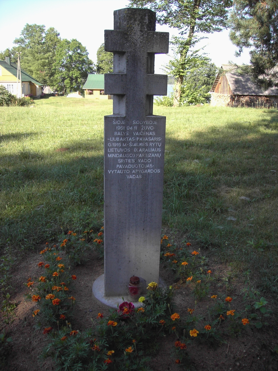 Monument to Lithuanian partisans and their supporters killed in 1951 in Strazdai, Utena district, Lithuania